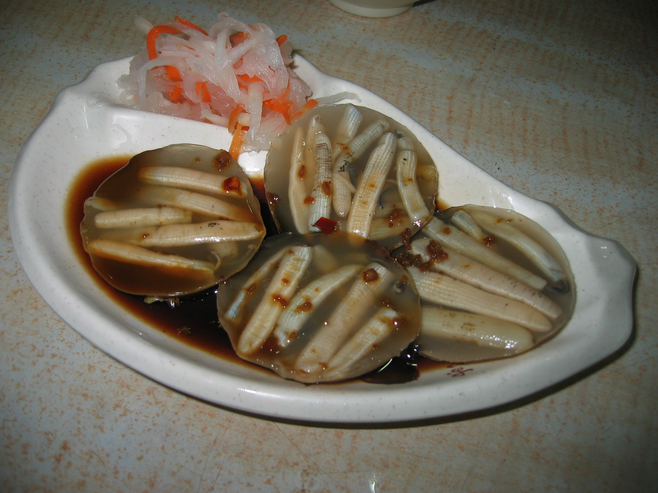 a dish of Sipunculid worm jelly made with Sipunculus nudus